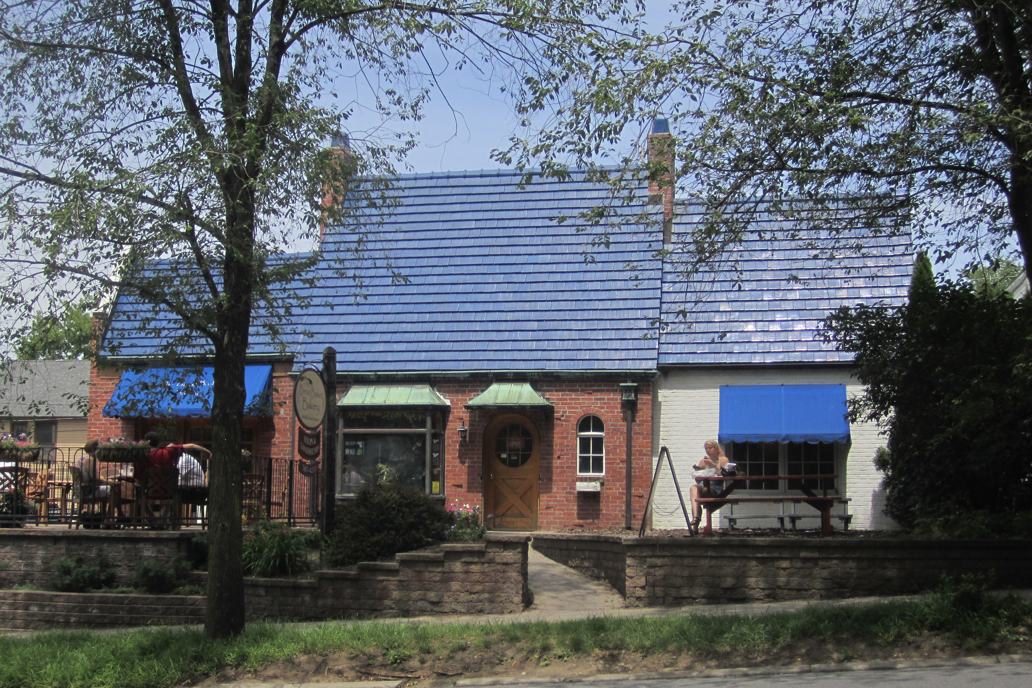 Former "Pure Oil" Gas Station, Saratoga Springs NY. Listed on the National Register of Historic Places.